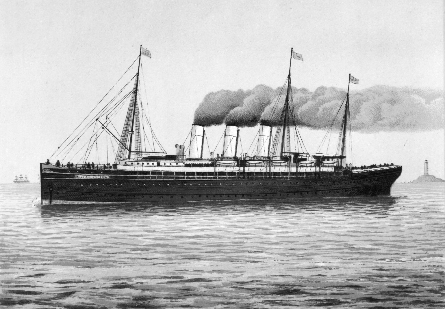 Foto of German passenger ship Augusta Victoria